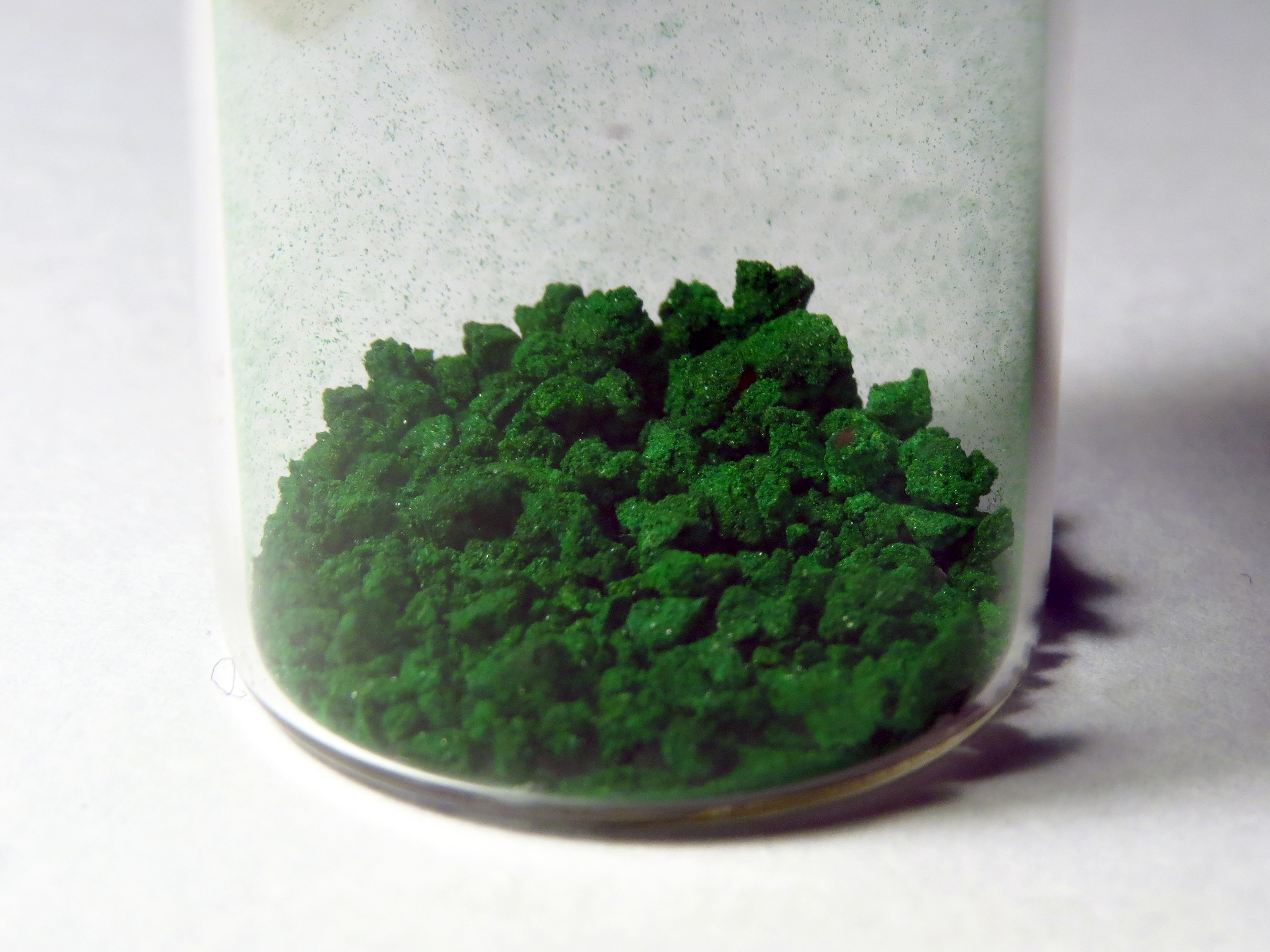 crystals of trans dichloribis(ethylenediamine)cobalt(III) chloride, [CoCl2en2]Cl, prepared by reaction of cobalt(II) chloride with hydrogen peroxide, ethylenediamine and hydrochloric acid followed by filtration and strong heating